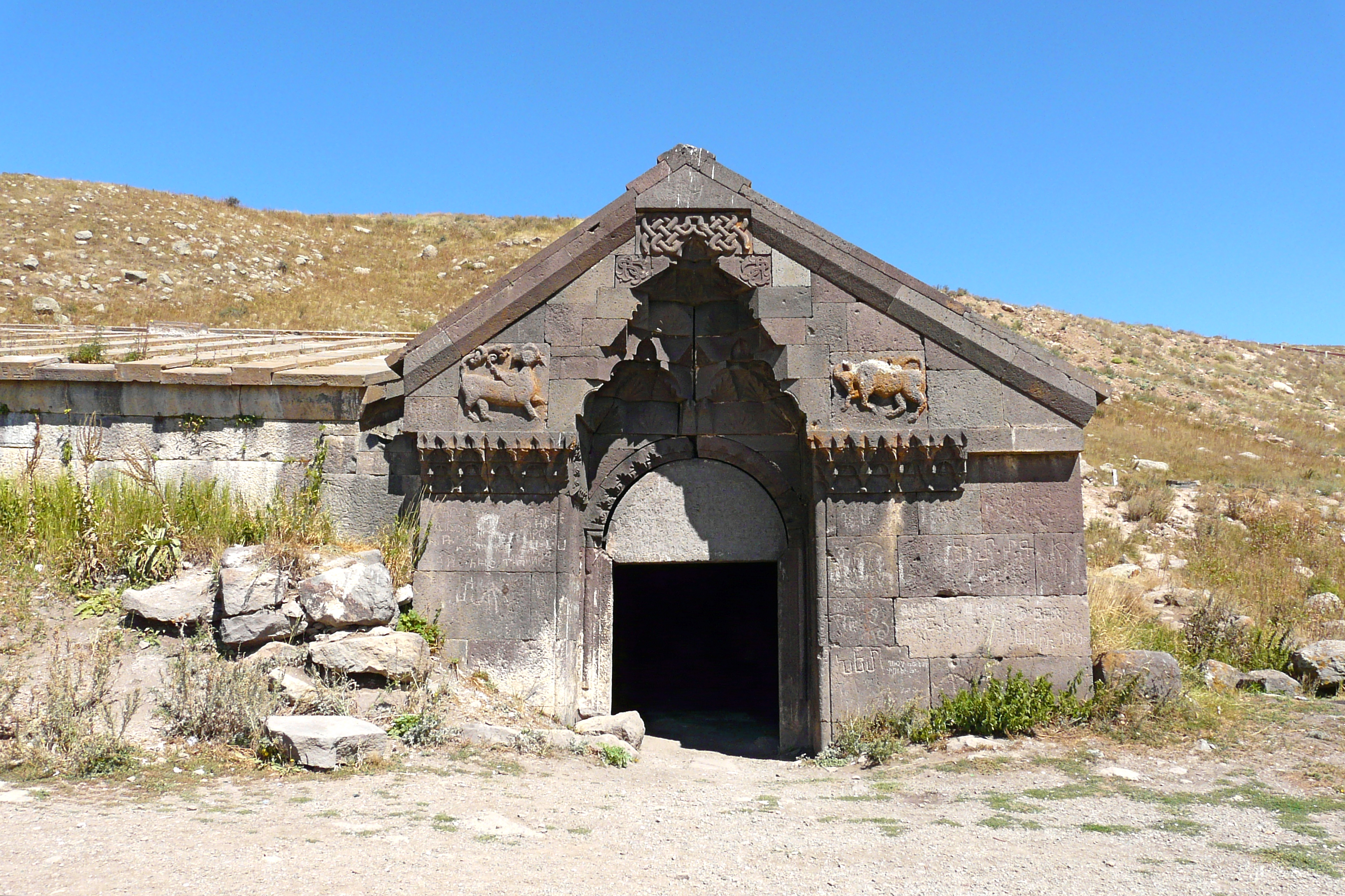 Selim Caravanserai, Vayots Dzor, Armenia. 7/1.2